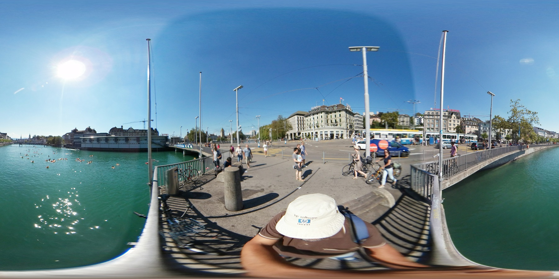 360 degree picture taken in Zürich on the day of the Limmat swim when hundreds of people swim downstream in a hot summer day